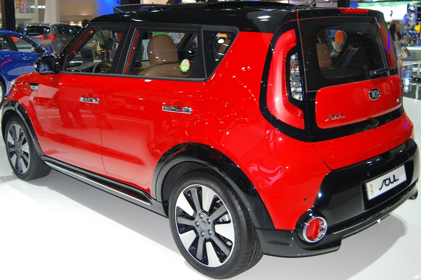 Kia All New Soul